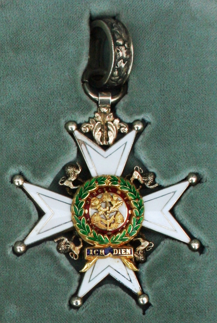 This is a photograph of the neck badge of the British Order of the Bath. It comes from my own collection and I hereby release the image into the public domain.